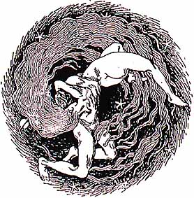 Akseli Gallen-Kallela: Illustration to Paul Scheerbart's poem "Königslied" in the German periodical Pan. Closing vignette. Berlin 1895.